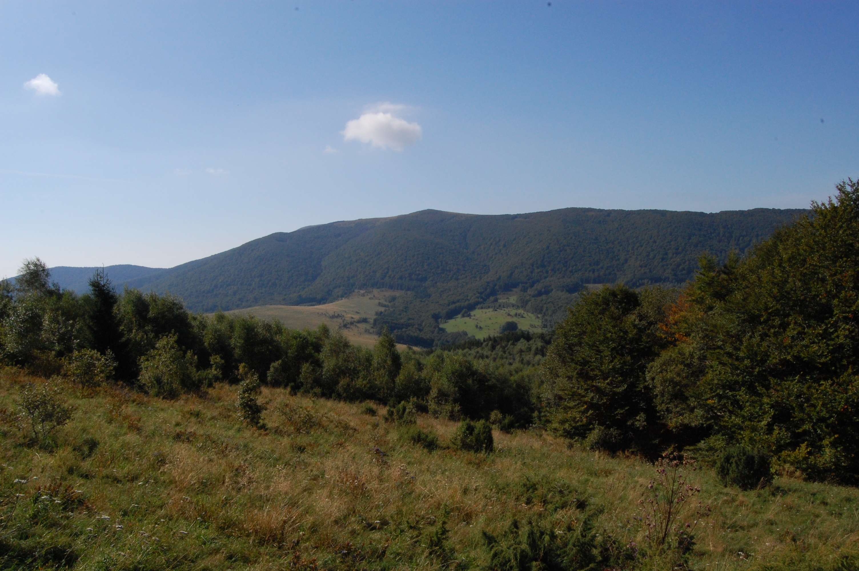 holyday in Bieszczady Poland Landscape from Połonina Caryńska